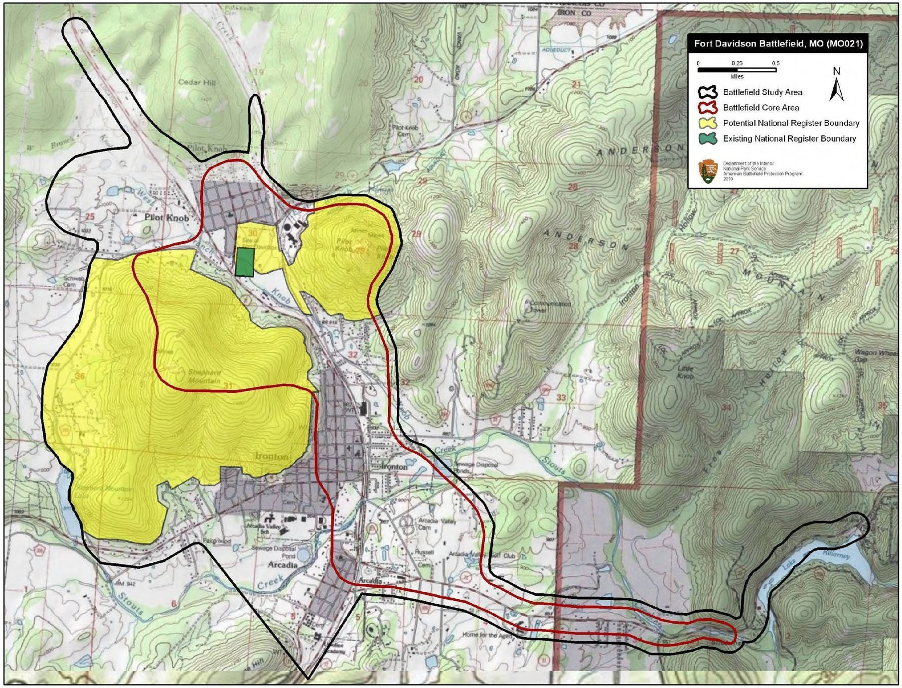 Map of battlefield core and study areas. The ABPP expanded the 1993 Study Area boundary significantly. The larger Study Area encompasses the initial Confederate approach from the east to the Shut-ins; the site of the Confederate encampment on the southern side of Shepherd Mountain; Confederate troop movements on and around Shepherd Mountain; Federal troop movements on Pilot Knob; Confederate troop movements above Fort Davidson (made in an attempt to attack Fort Davidson from the north); the sites of the two Confederate encampments north of the town of Pilot Knob between which withdrawing Union troops had to pass under cover of darkness; and the Union route of withdrawal from the fort to the northwest. Because the combatants fought over the same middle ground repeatedly during the two-day battle, the two original CWSAC Core Areas were expanded and merged to create a single Core Area. This new Core Area encompasses areas where fighting took place on either, or both, September 26 and 27. It includes the initial point of contact at the Shut-ins and areas of subsequent engagement in Arcadia and Ironton on the 26th, and the areas of fighting in the gap, on the mountains, and around Fort Davidson on the 27th.